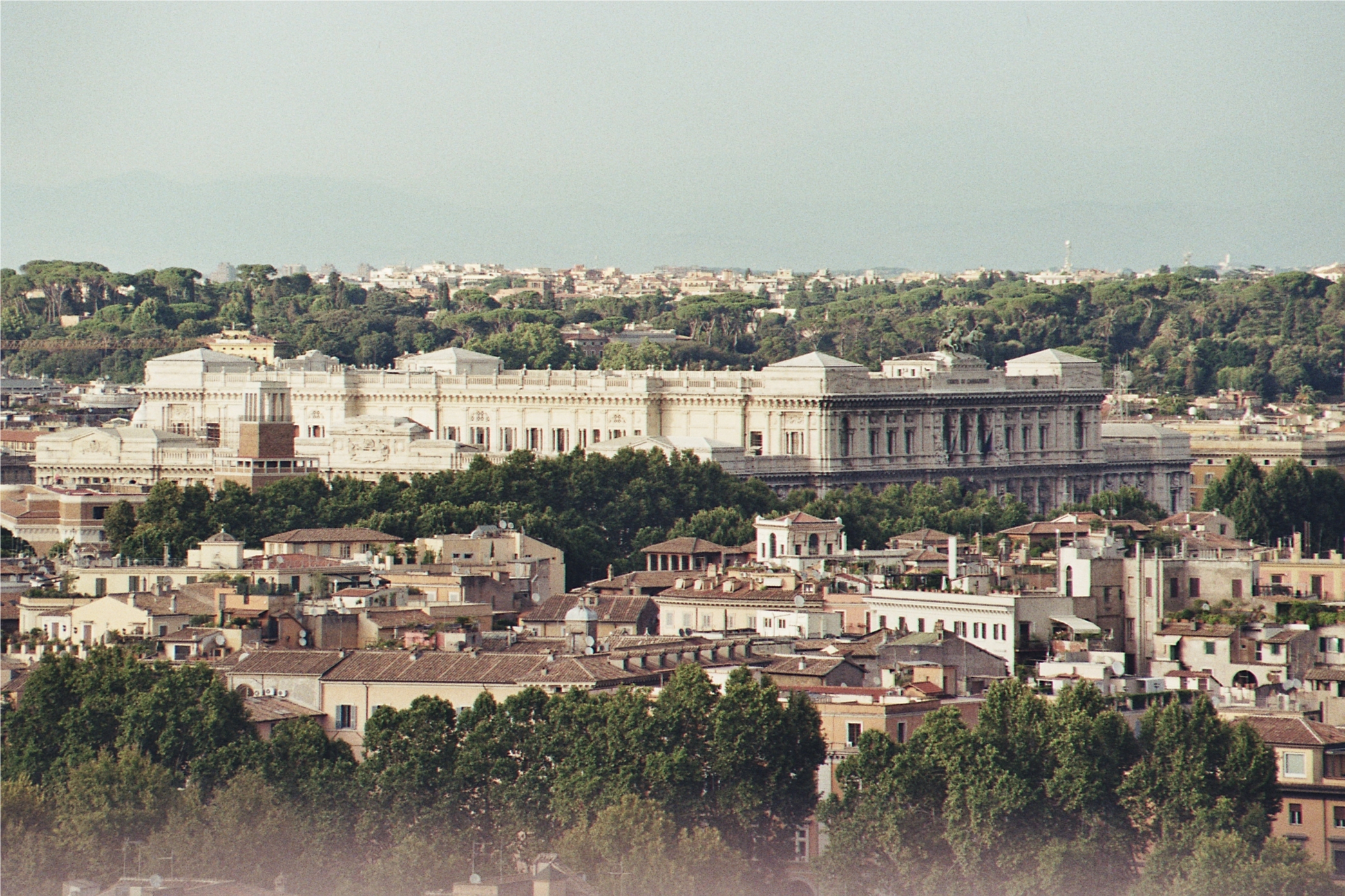 The Palace of Justice in Rome, Italy, seat of the Supreme Court of Cassation. View from the Janiculum Hill